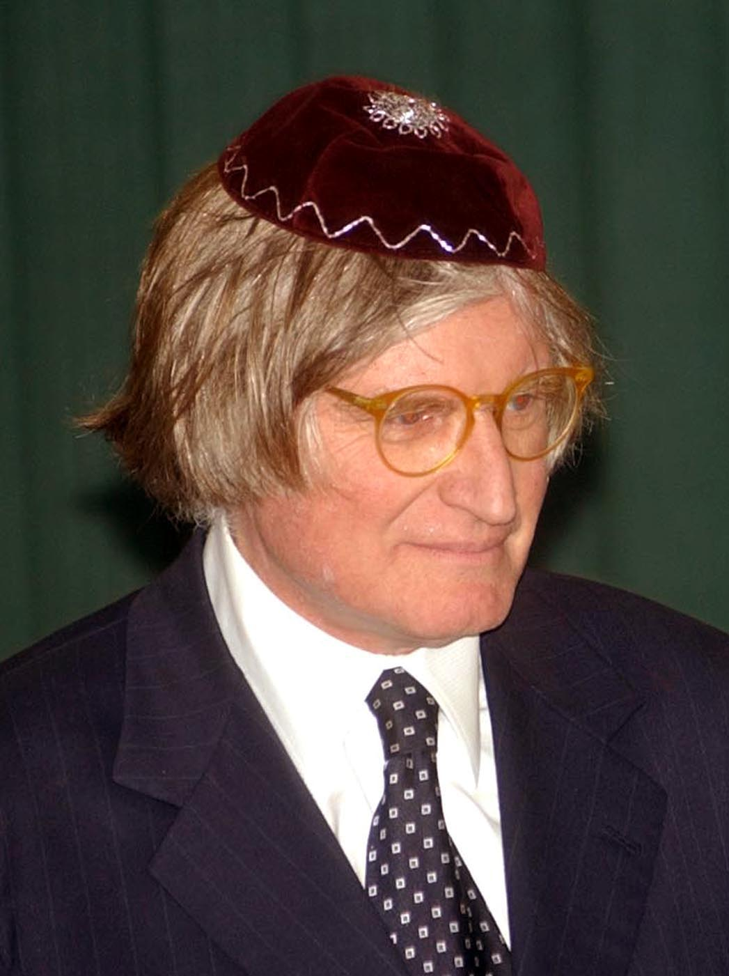 The Brazilian Rabbi Henry Sobel.